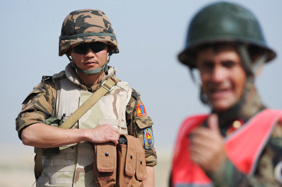 051210-F-5561D-005 Kabul - Afghan National Army (ANA) artillerymen are advised by Mongolian soldiers during a training exercise May 12, 2010. ANA artillery soldiers go through a 3 week course that trains them on command and control of heavy weapons and artillery at Kabul Military Training Center. (U.S. Air Force photo/ Senior Airman Matt Davis)